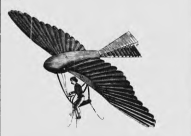 prototype of a flying machine, constructed by Václav Kadeřávek in Prague about 1860-1865